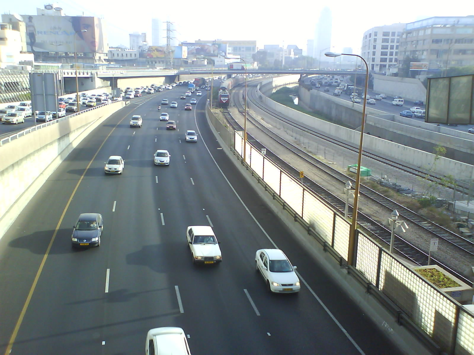 Ayalon Freeway, from the pedestrian bridge connecting HaShalom railway station and Azrieli Mall, looking north.